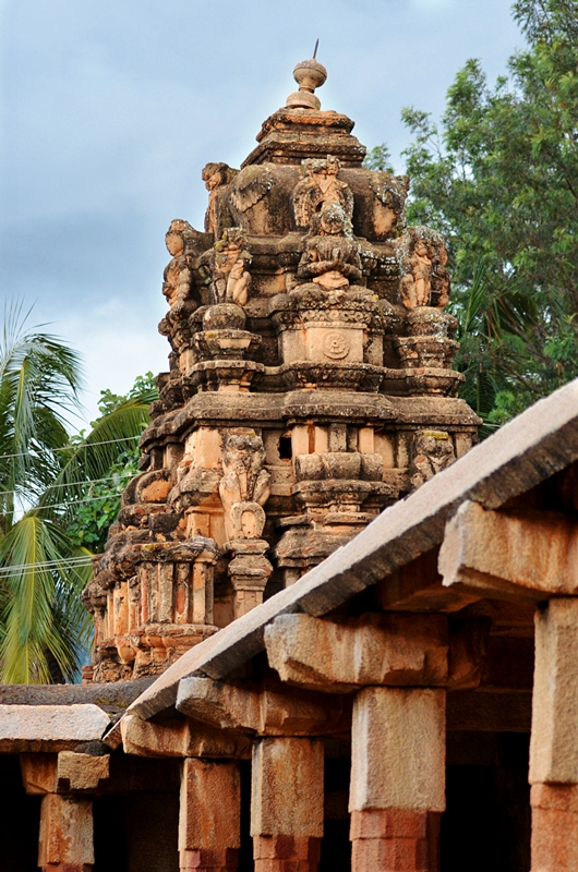 Bhoga Nandeeshwara Temple is a 1000 year old temple near Nandi Hills in Karnataka. It is about 60 kms from Bangalore. The temple is dedicated to Lord Shiva. (Photo - Jim Ankan Deka)